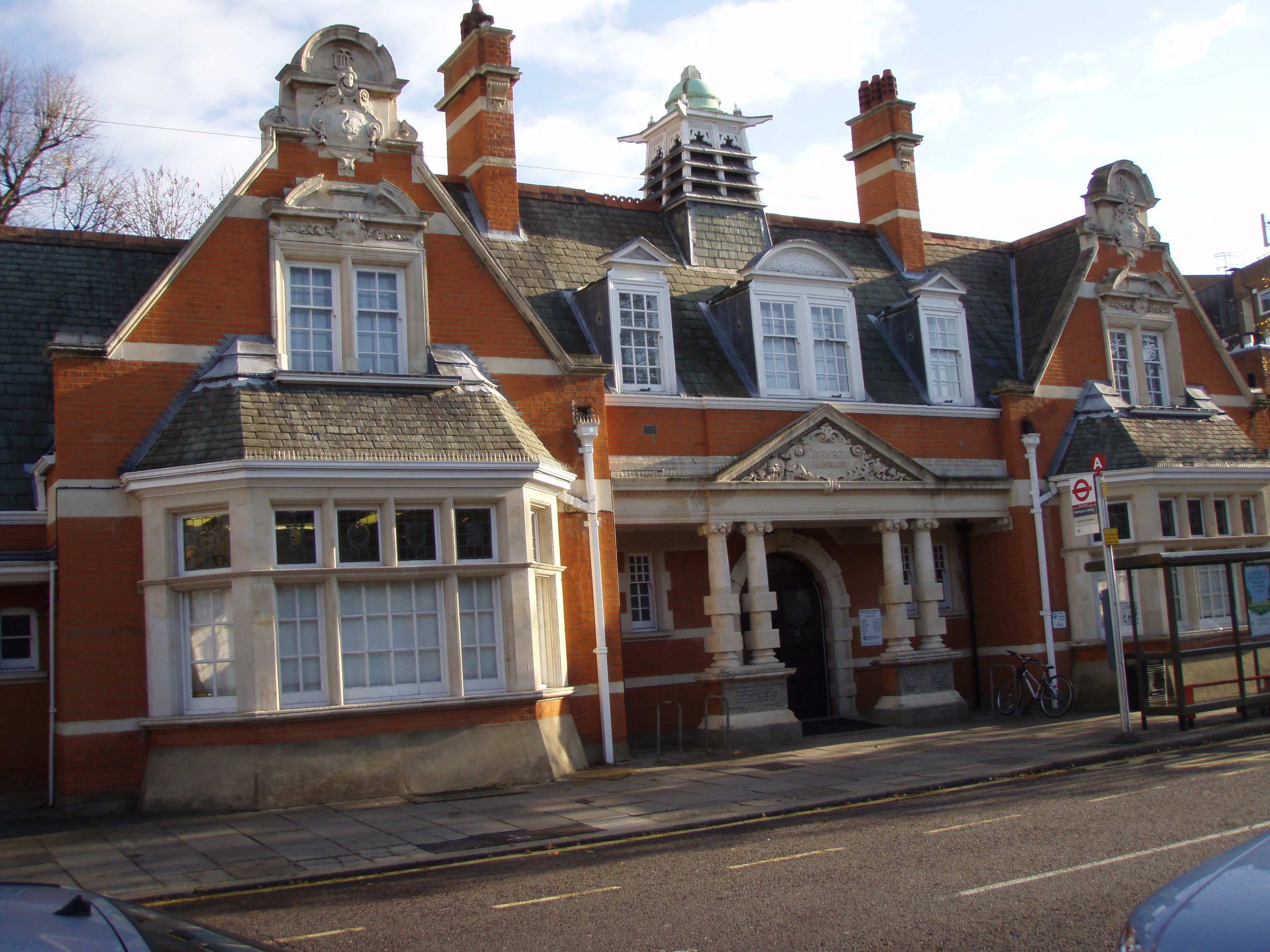 Photo of Teddington's Carnegie Library